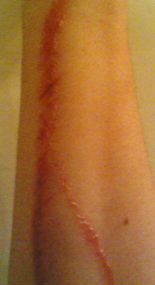 abrasion on Petr K's lower left arm